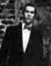 Antonio Bugallo. Folk/jazz/spirituals singer. Argentina. Member of Opus Cuatro.